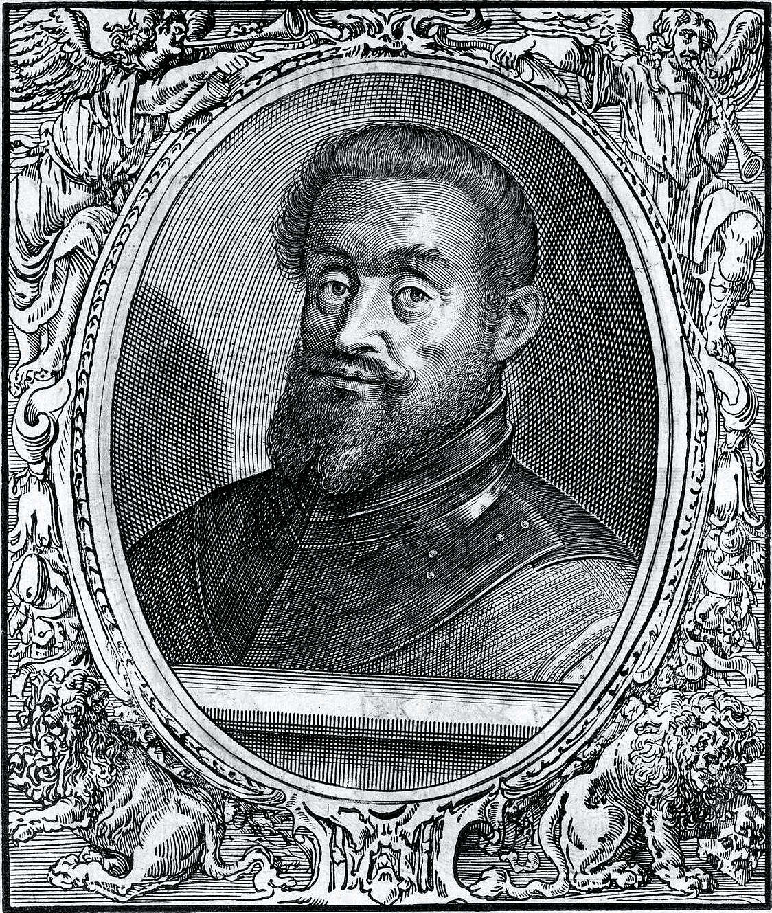 Portrait of the Dutch explorer William Cornelis Schouten.